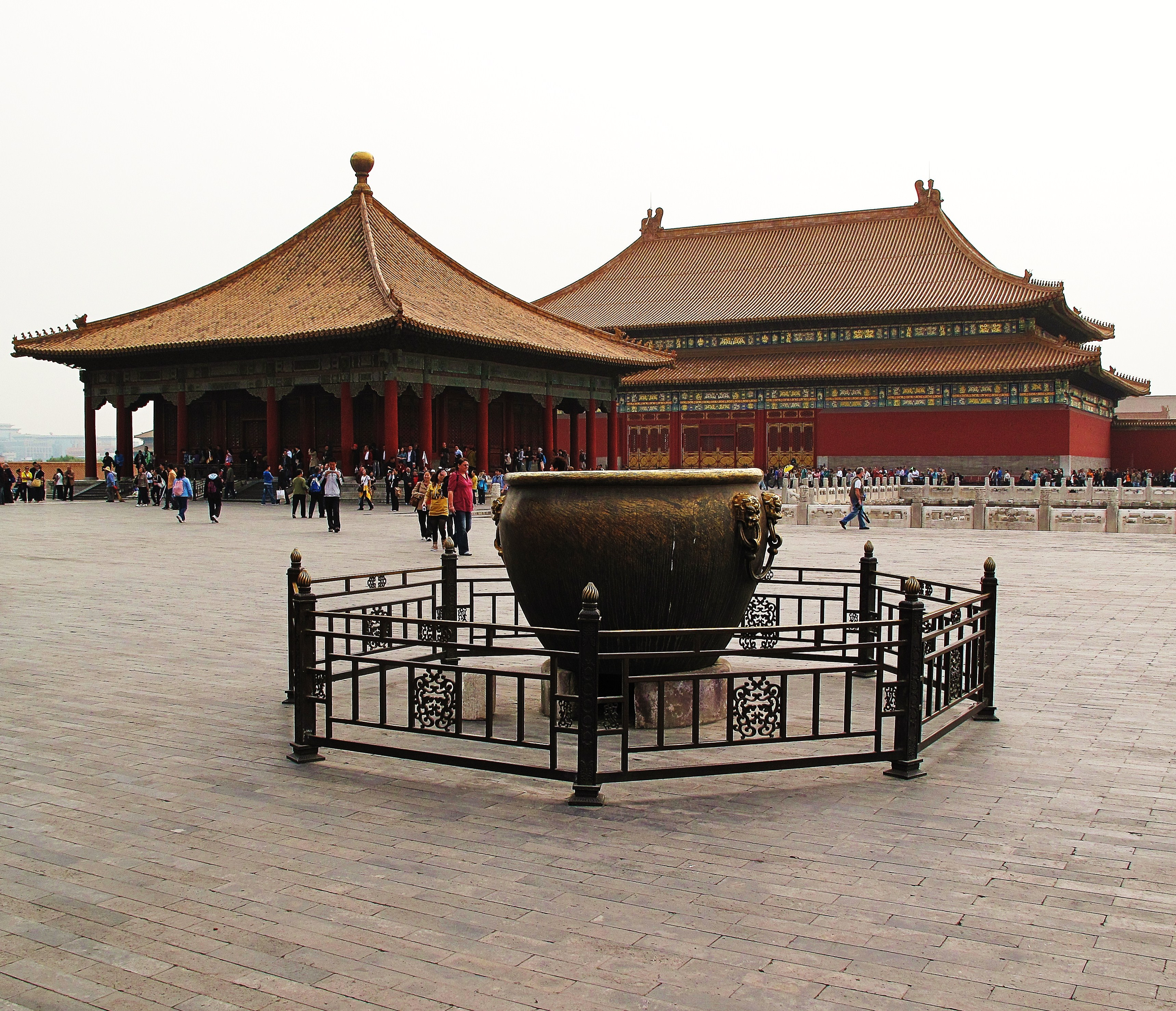 Hall of Union